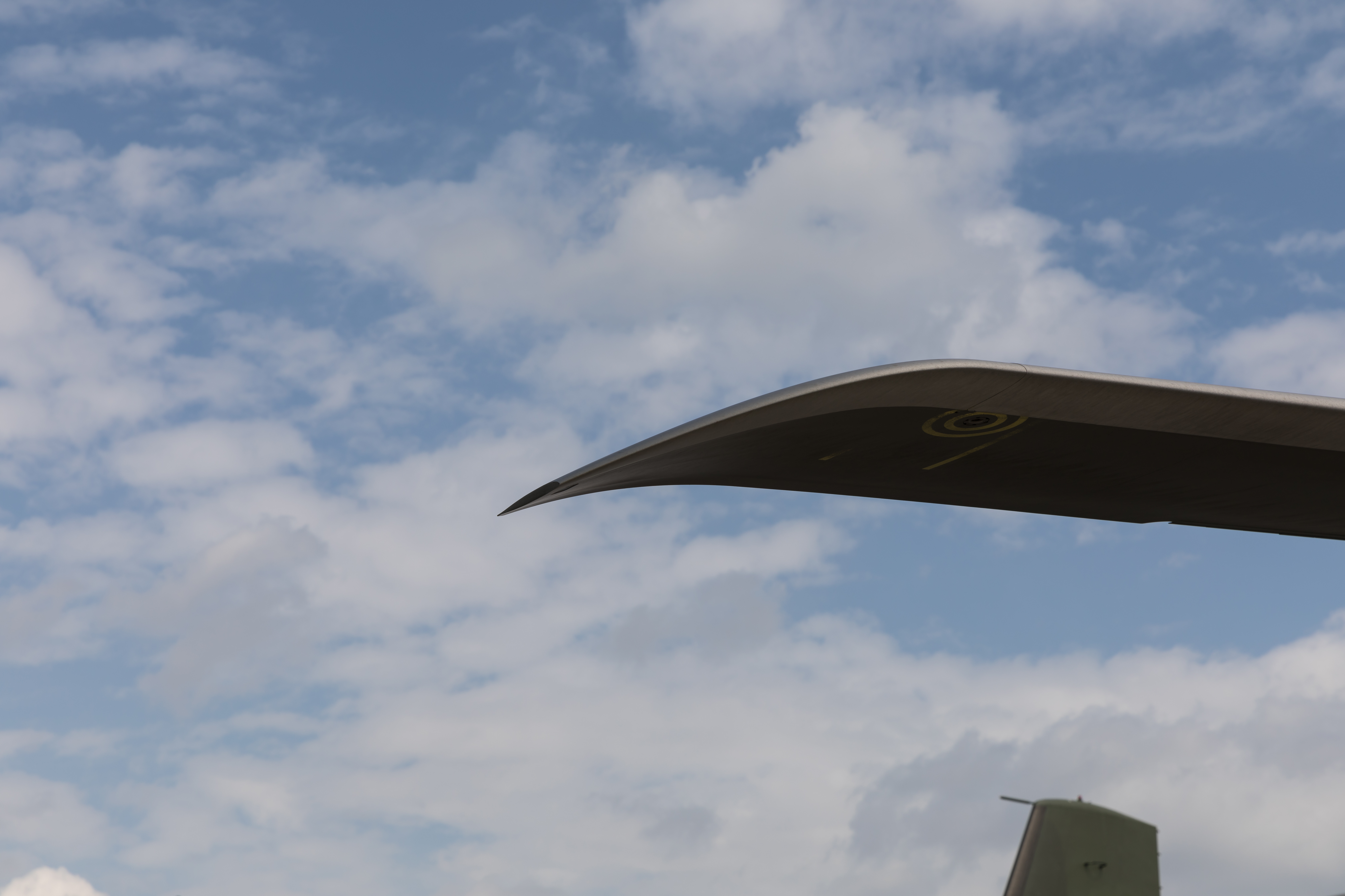 ILA 2018